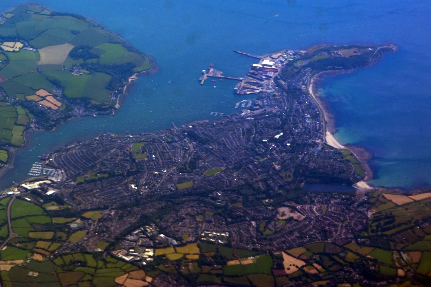 Falmouth, Cornwall, United Kingdom